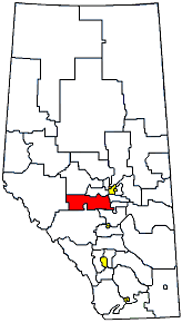 Map showing the location of Drayton Valley-Calmar a provincial electoral district in Alberta under 2004 boundaries